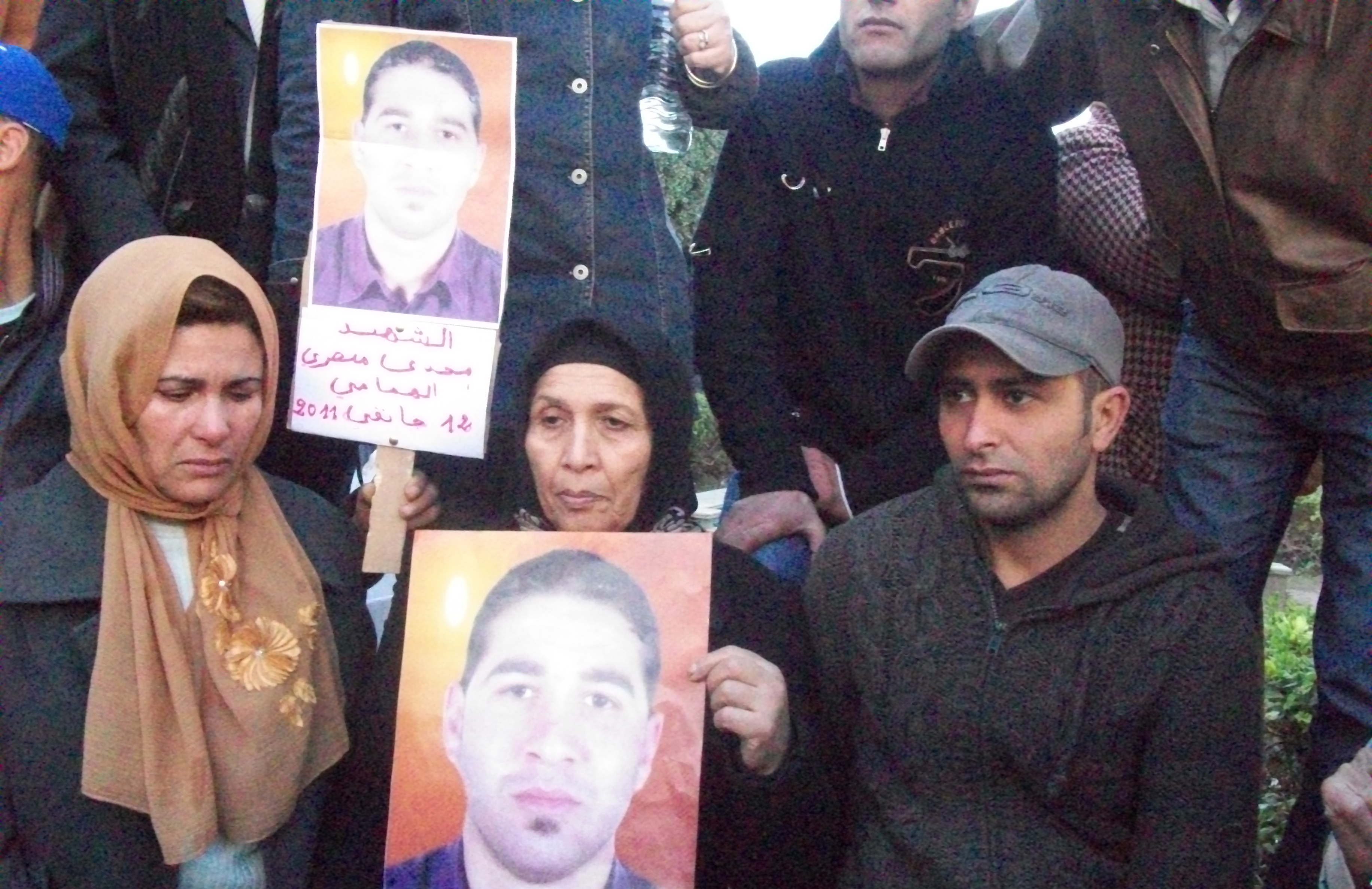 Full story: القصة l'histoire